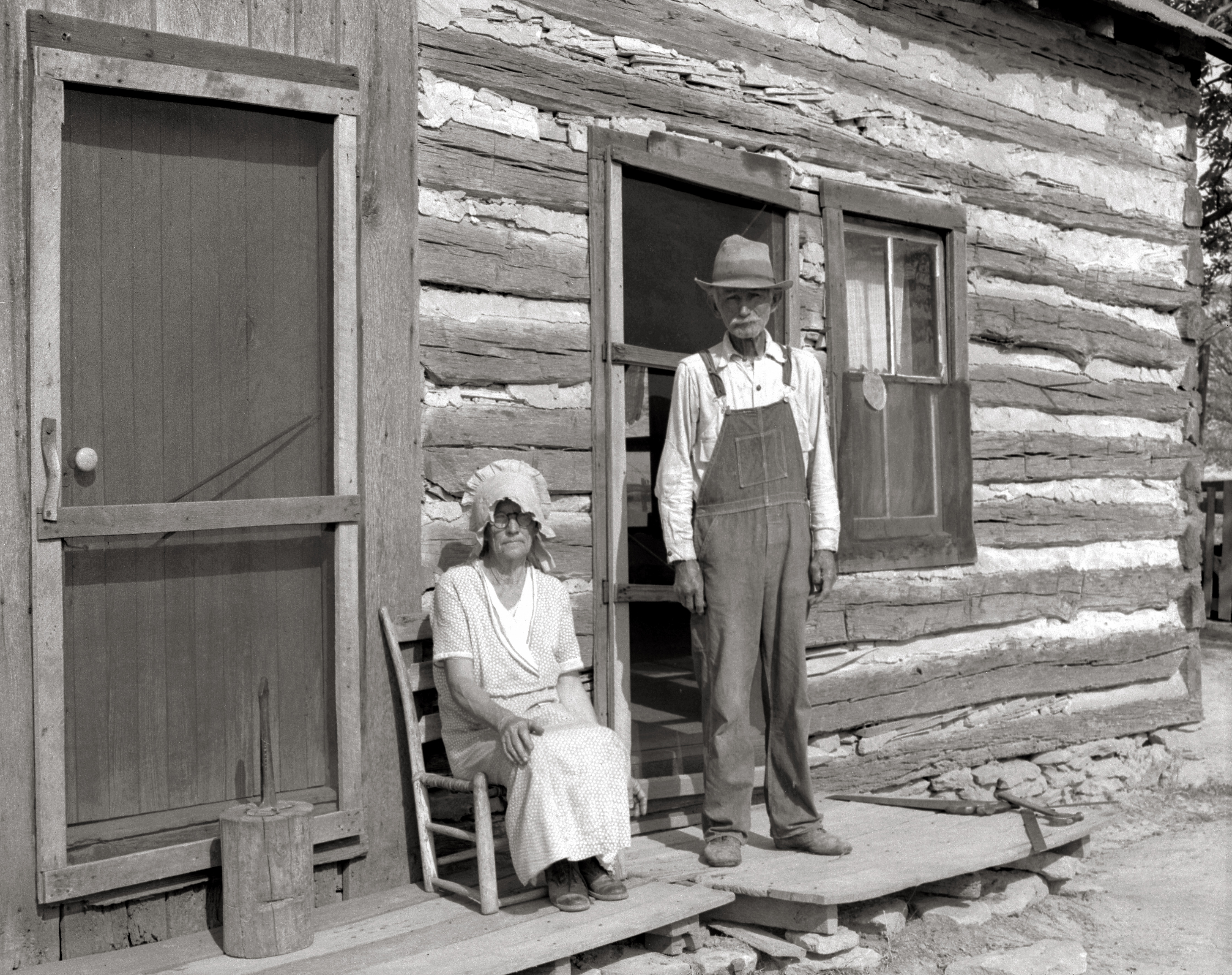 Nick Phillips, 81, and his wife pose in front of their house located in Ashland, Missouri.